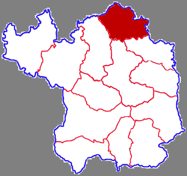 Location of Zichang county in Yan'an city, China